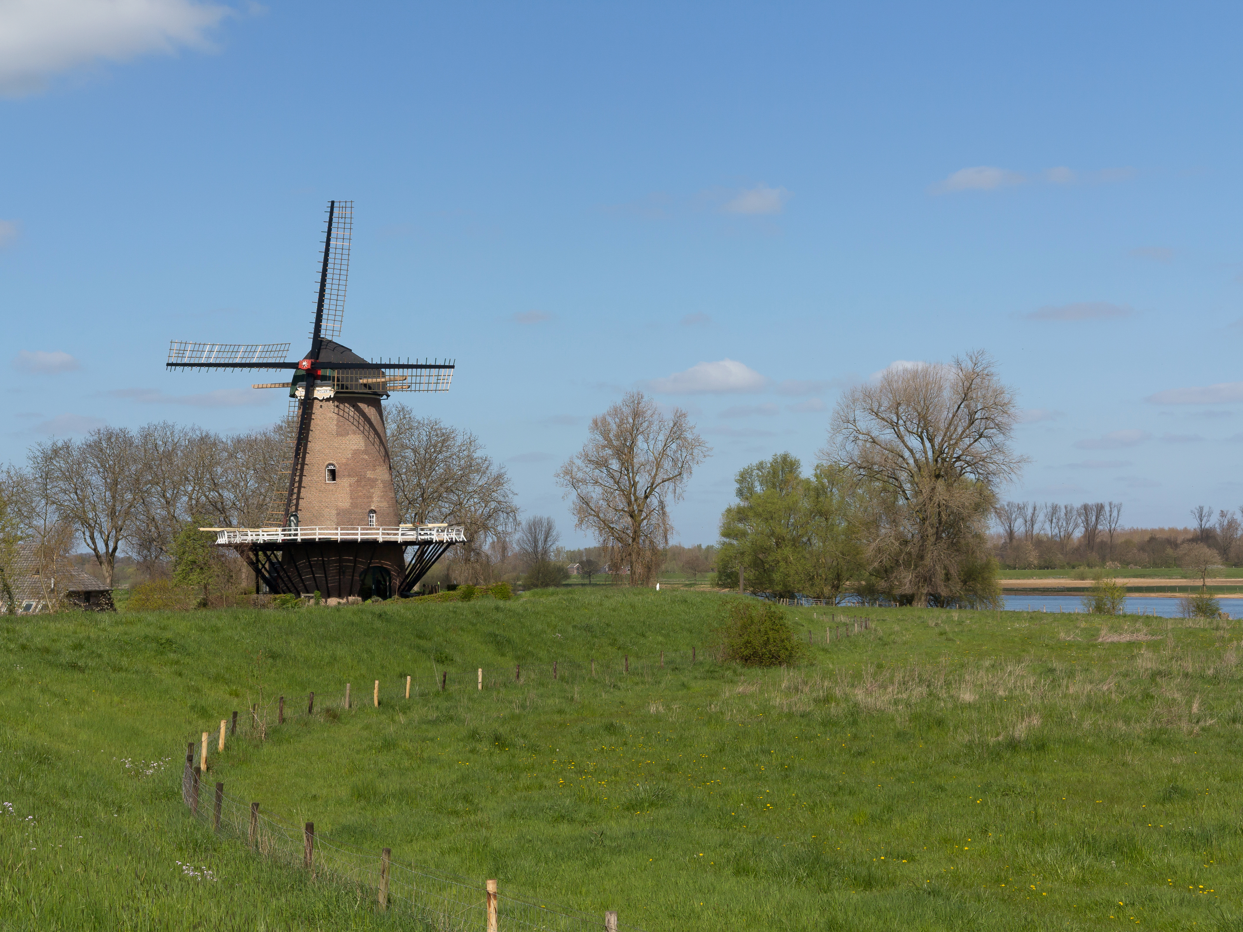 Dieden, windmill: stellingmolen Stella Polaris